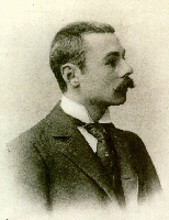 Leopold Andrian (1875−1951), Austrian author, dramatist and diplomat